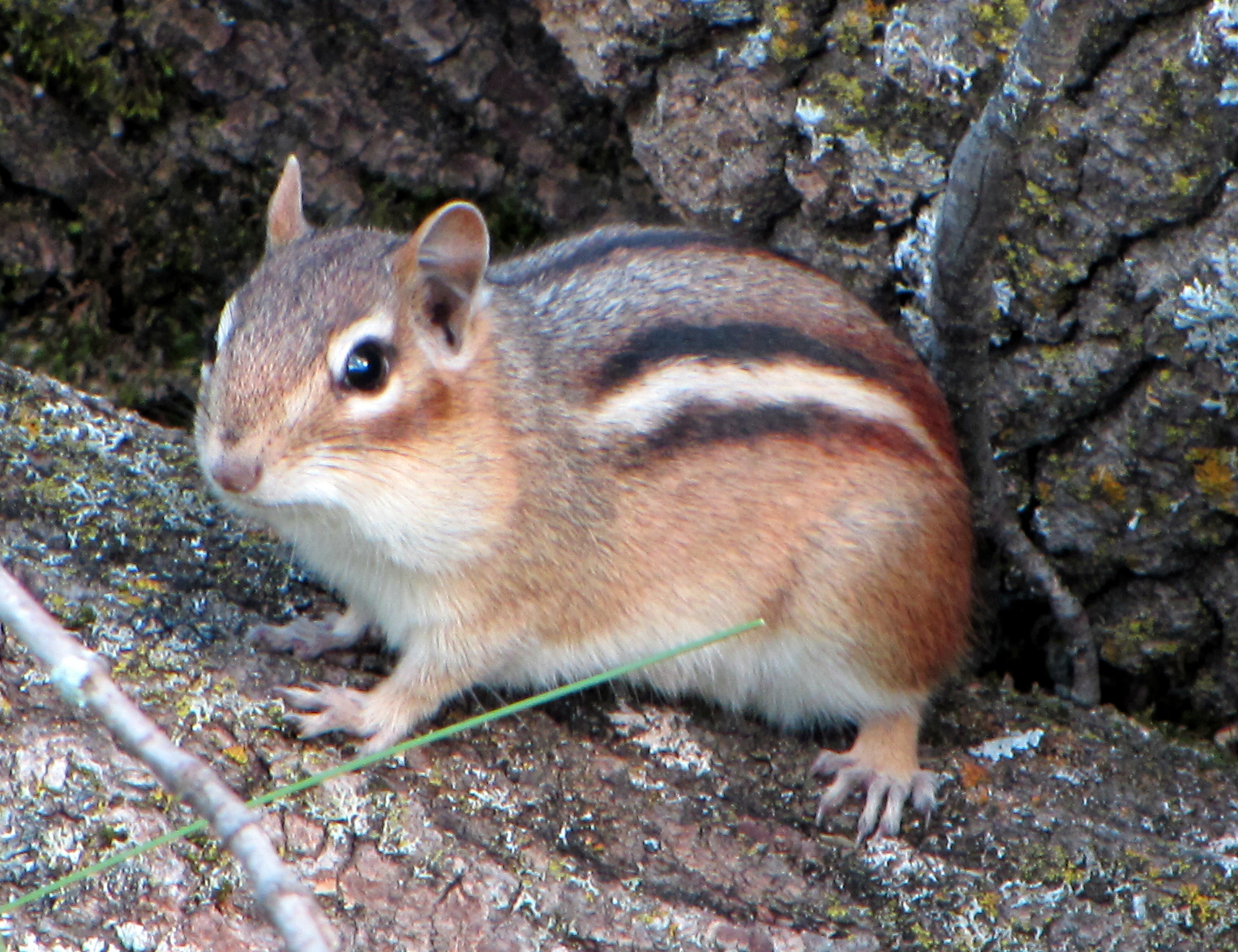 Eastern Chipmunk (Tamias striatus), Gatineau Park, Quebec, Canada.